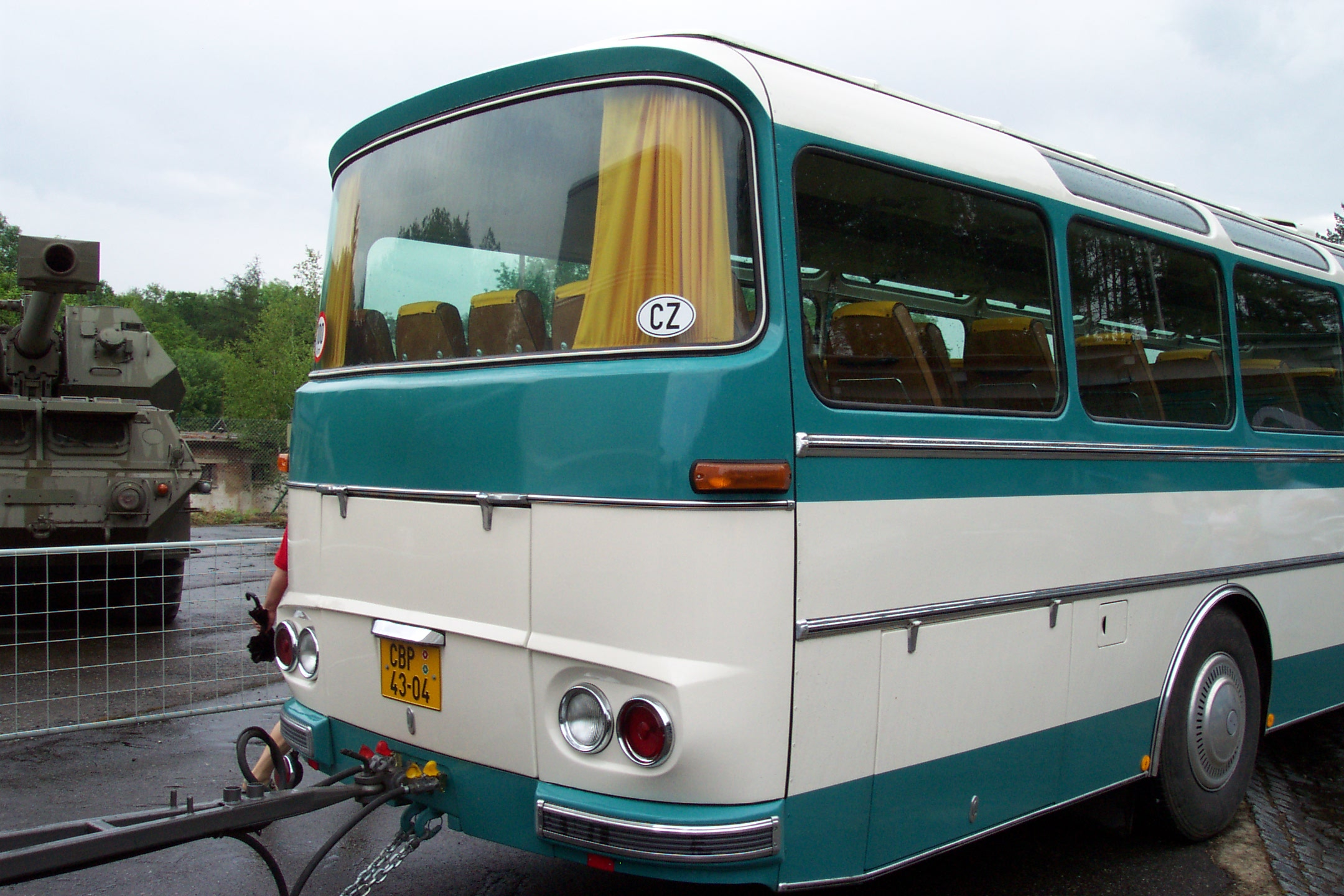 Renovated bus type Karosa ŠD 11, of the company of ČSAD Jihotrans with trailer - Rotelbus, the special trailer sleeping car